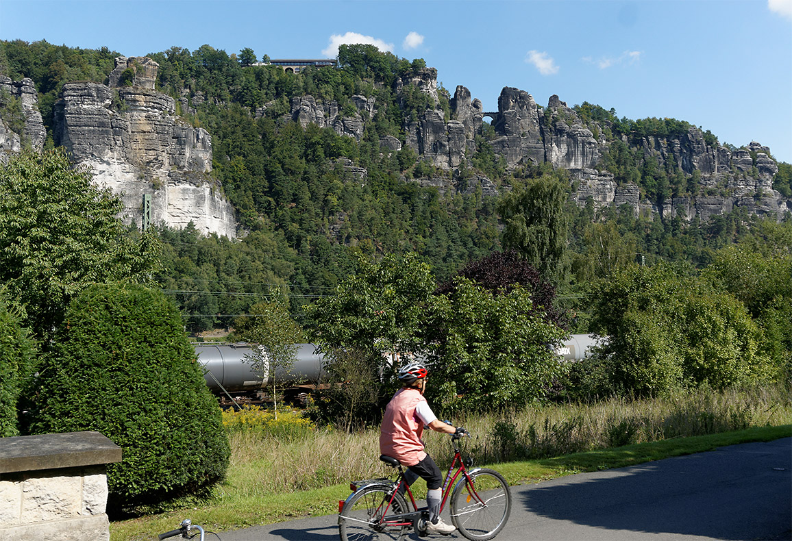 Elbe Cycle Route in the Saxon Switzerland with view of the rock formation Bastei, Germany